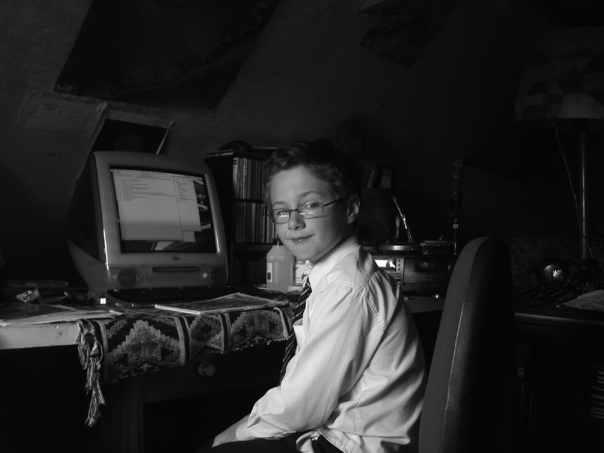 Young man at desk while in the process of programming.